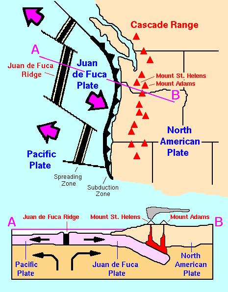 Cascade Range — Plate Tectonics